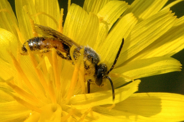 Lasioglossum calceatum from Commanster, Belgian High Ardennes .